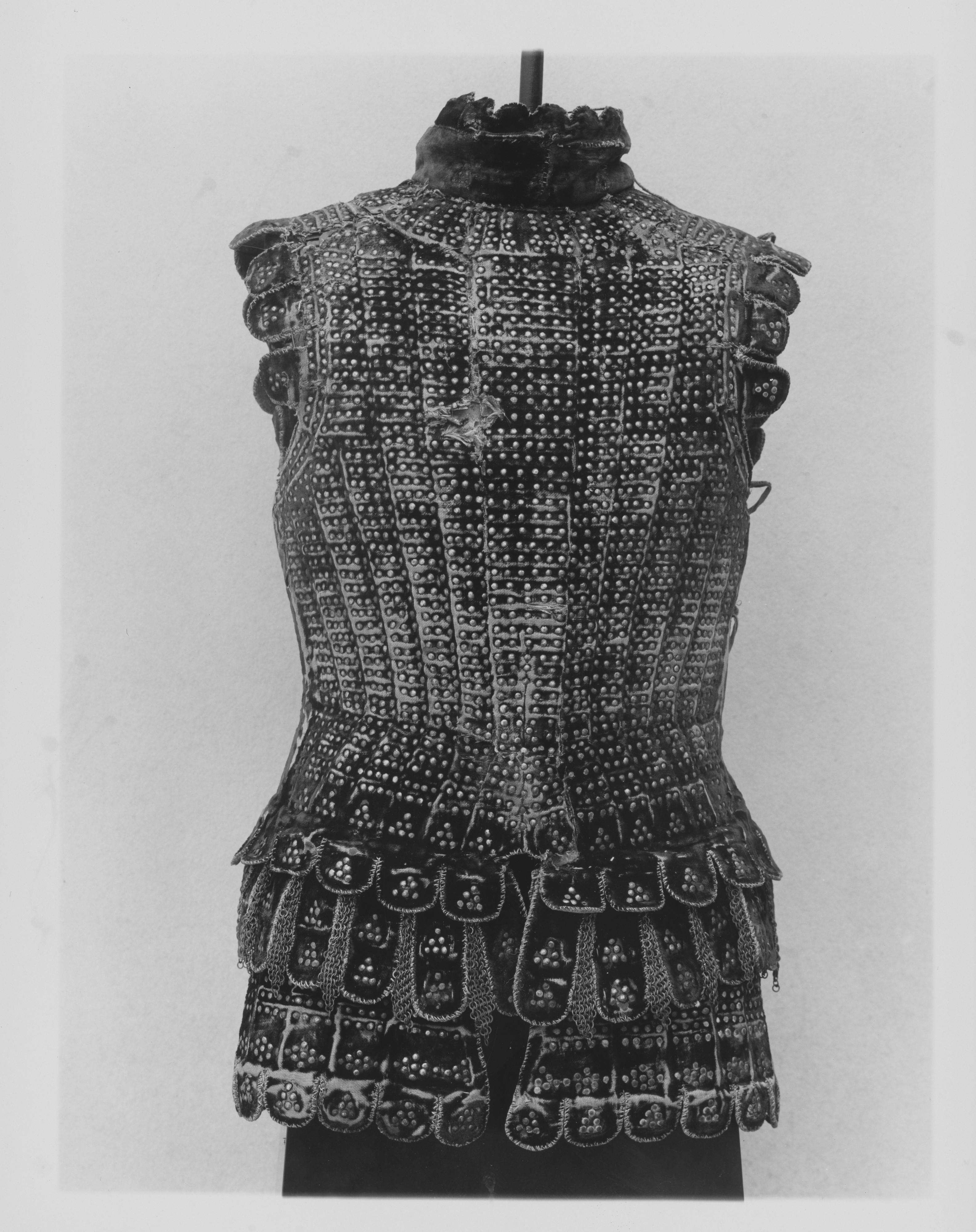 Italian; Brigandine; Brigandines